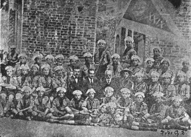 Kuleli Ermeni Yetimleri Armenian orphans of Kuleli Today Kuleli Military High School or Kuleli Askerî Lisesi